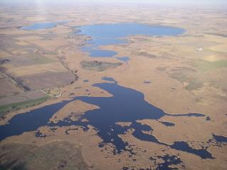 I said, looky! pretty lake! Too bad it wasn't a lake, it was a slough, but it was still pretty.